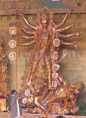 Durga slaying Mahisasur - golden statue. The priest is performing navami arati in front (on festival Durgapuja) (Chittaranjan Park, Delhi, Oct 22, 2004).